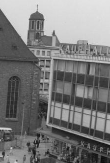 Title: Frankfurt/Main, Bau der Untergrundbahn Factual corrections and alternative descriptions are encouraged separately from the original description. Additionally errors can be reported at this page to inform the Bundesarchiv. Original historic description: Frankfurt am Main U-Bahn-Bau